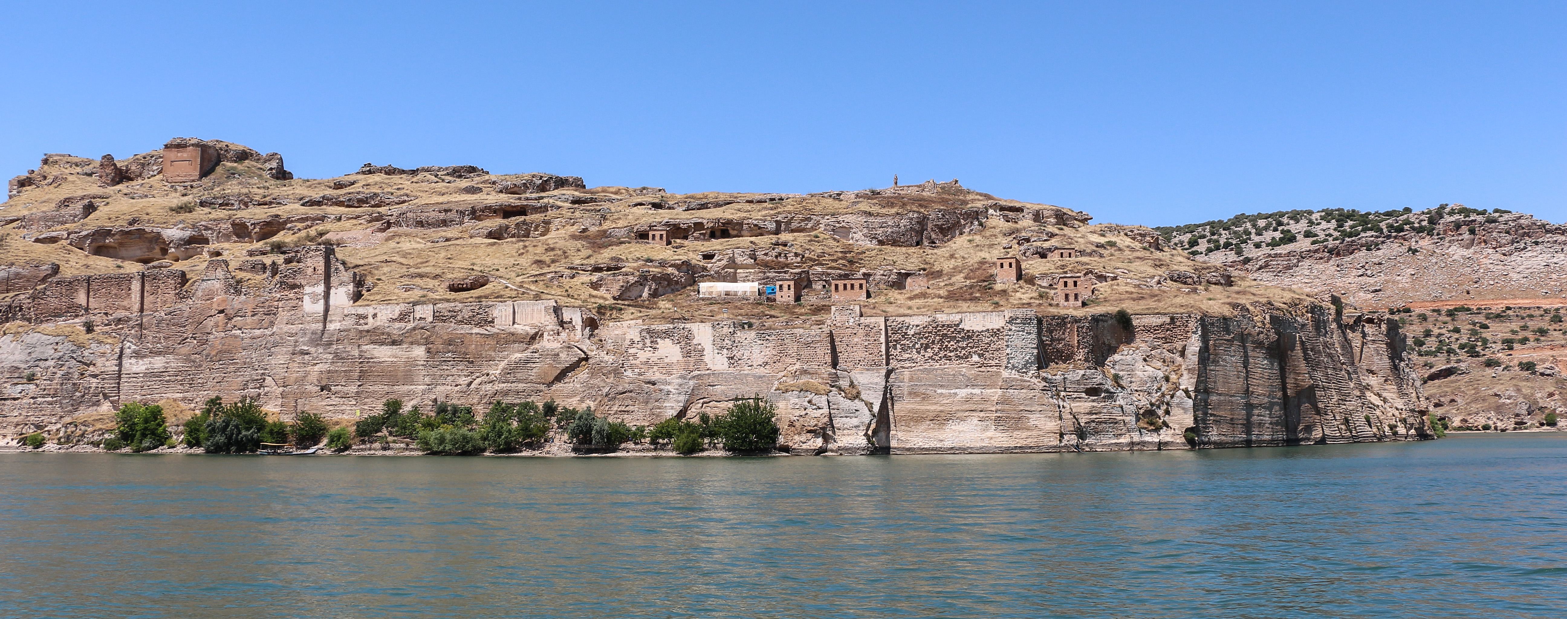 Fortress of Rumkale on the river Euphrates, Turkey